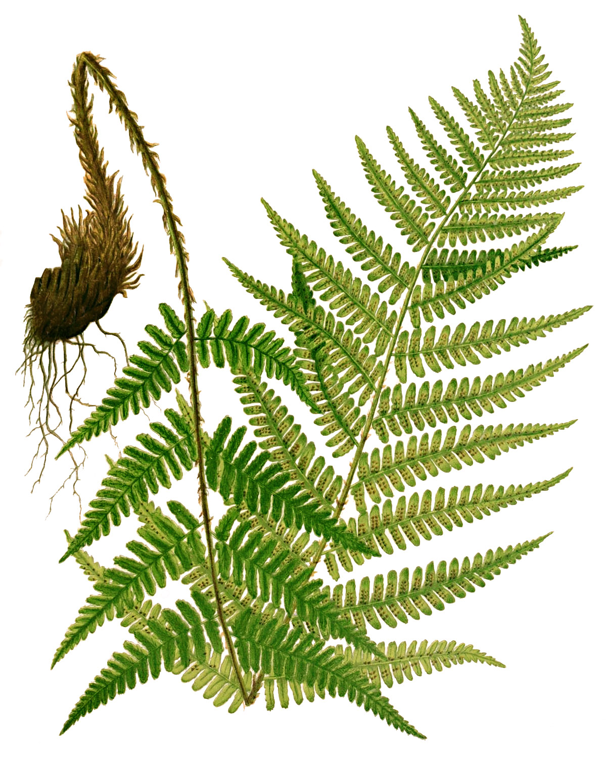 Male Fern (Dryopteris filix-mas) – Family Dryopteridaceae – from 19th century book: Beautiful ferns from original water-color drawings after nature, by Eaton, Daniel Cady